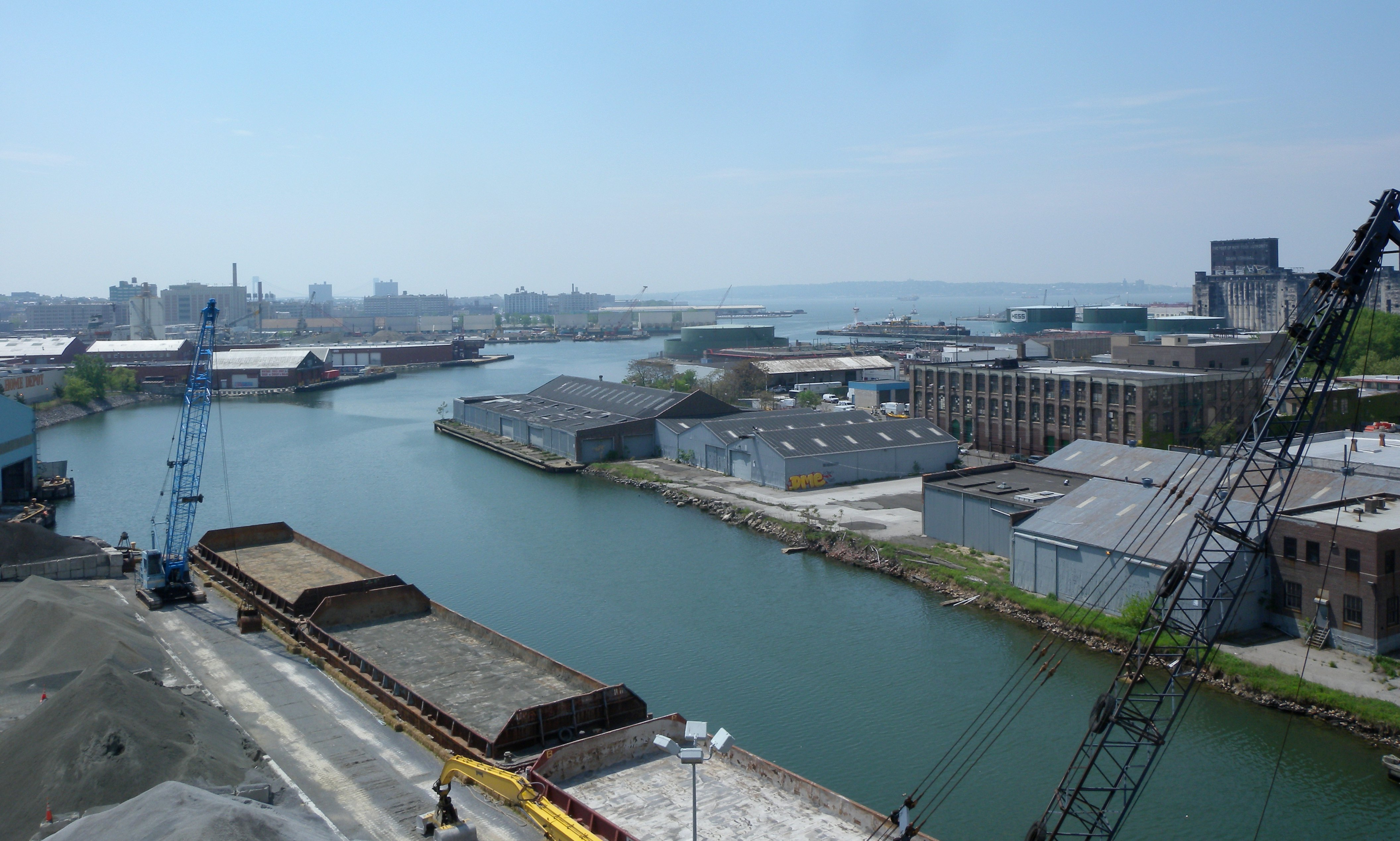 Looking south along Gowanus Canal from Gowanus Expressway bridge, on a sunny midday during 5 Boro Bike Tour.